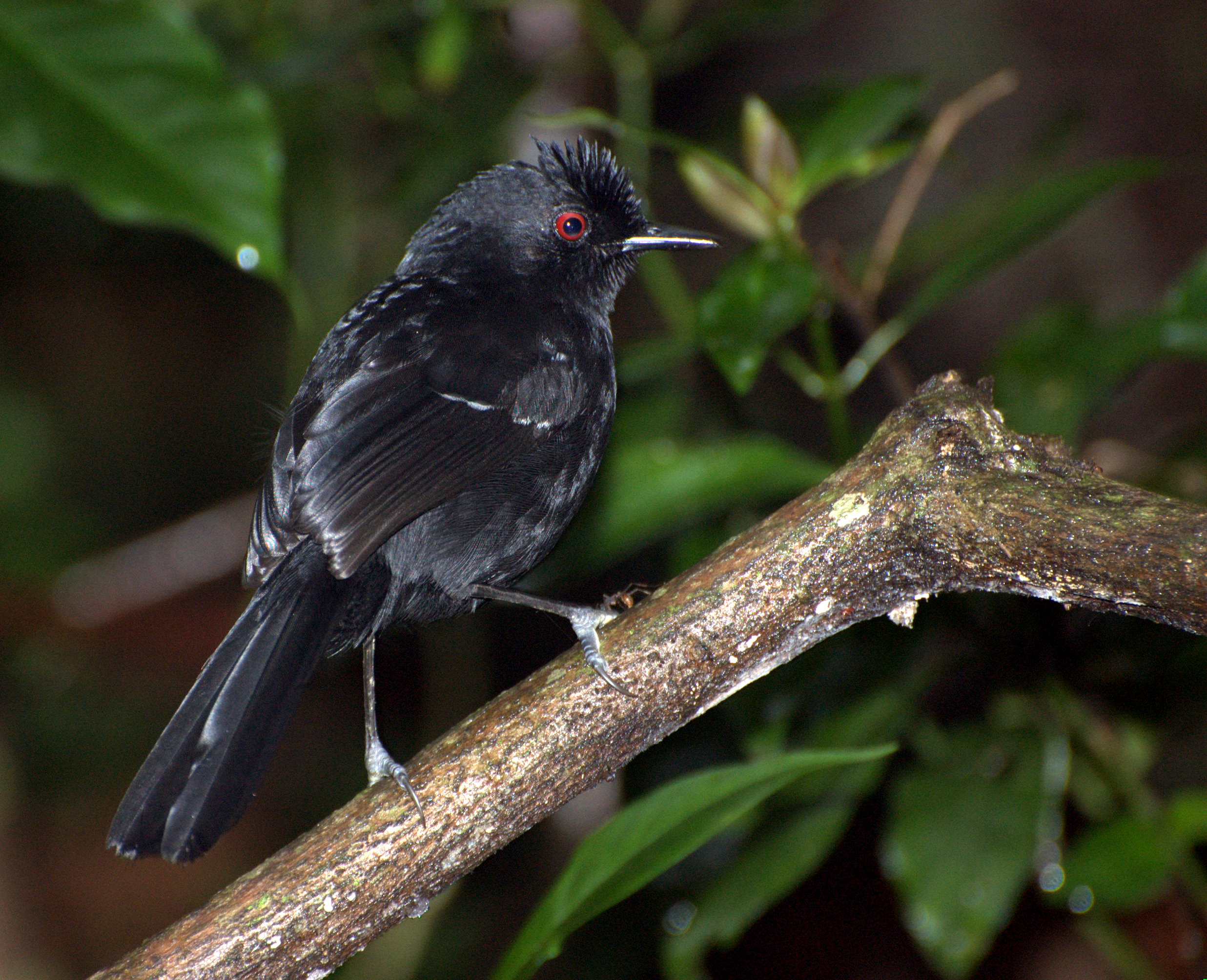 A White-shouldered Fire-eye (Pyriglena leucoptera). Parque Estadual da Serra da Cantareira - São Paulo - Capital - Brasil